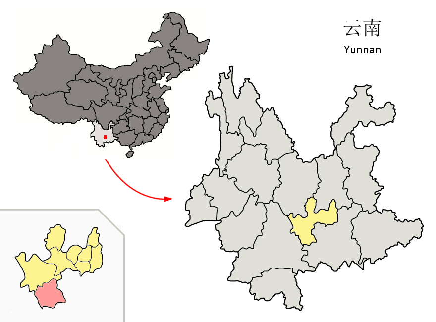 Location of Yuanjiang County (pink) and Yuxi Prefecture (yellow) within Yunnan province of China Map drawn in september 2007 using various sources, mainly : Yunnan province administrative regions GIS data: 1:1M, County level, 1990 Yunnan Counties map from